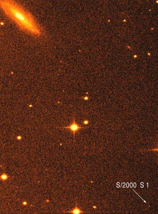 The photo shows the discovery of two new Saturnian moons, as registered on August 7, 2000, with the Wide-Field Imager (WFI) camera at the MPG/ESO 2.2-m telescope at the La Silla Observatory. It displays the faint image of the newly discovered moon S/2000 S 1 in the lower right corner of the field. A spiral galaxy is seen in the upper left corner of this photo. The other objects are (background) stars in the Milky Way.